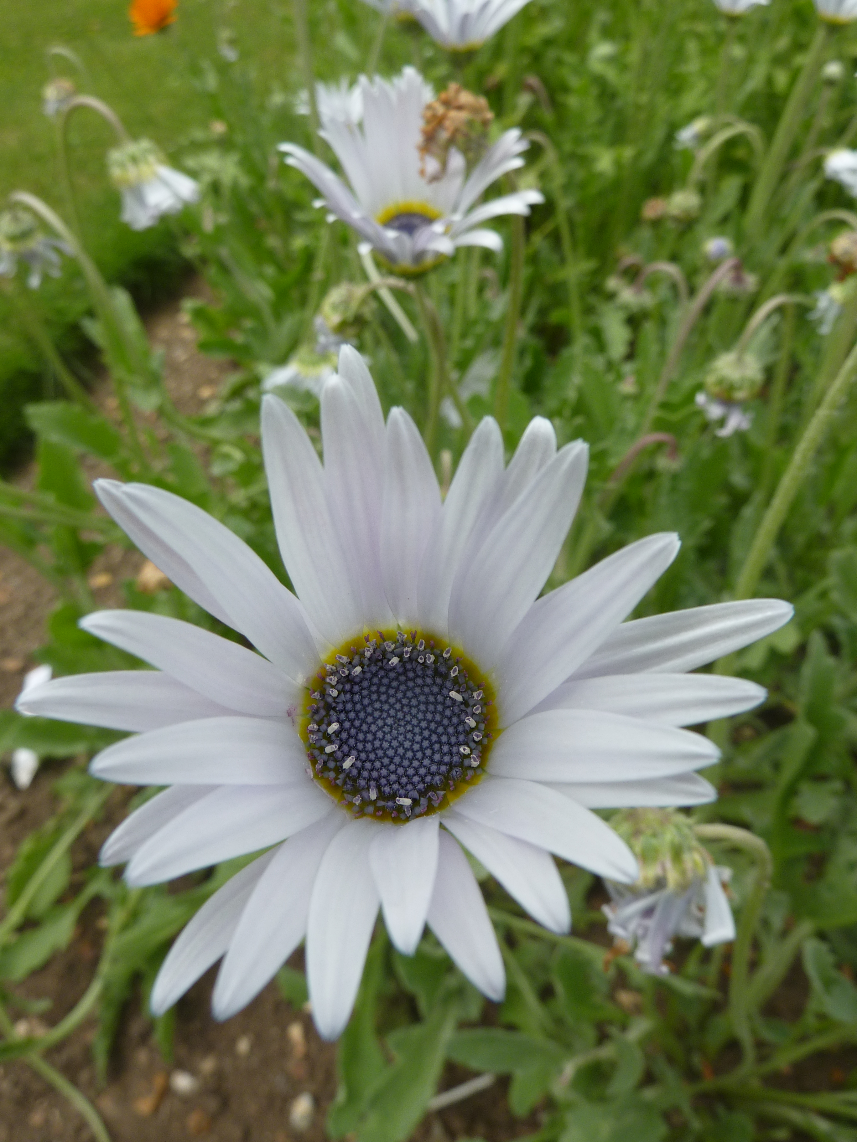 Taken in the Cambridge University Botanic Garden